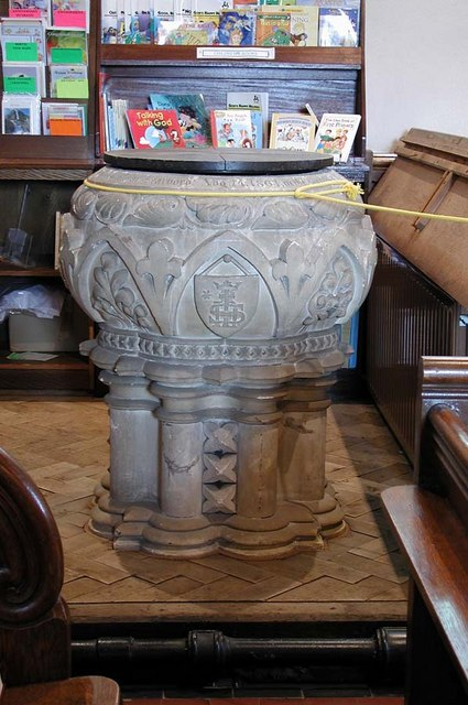 All Saints, Patcham, Sussex - Font